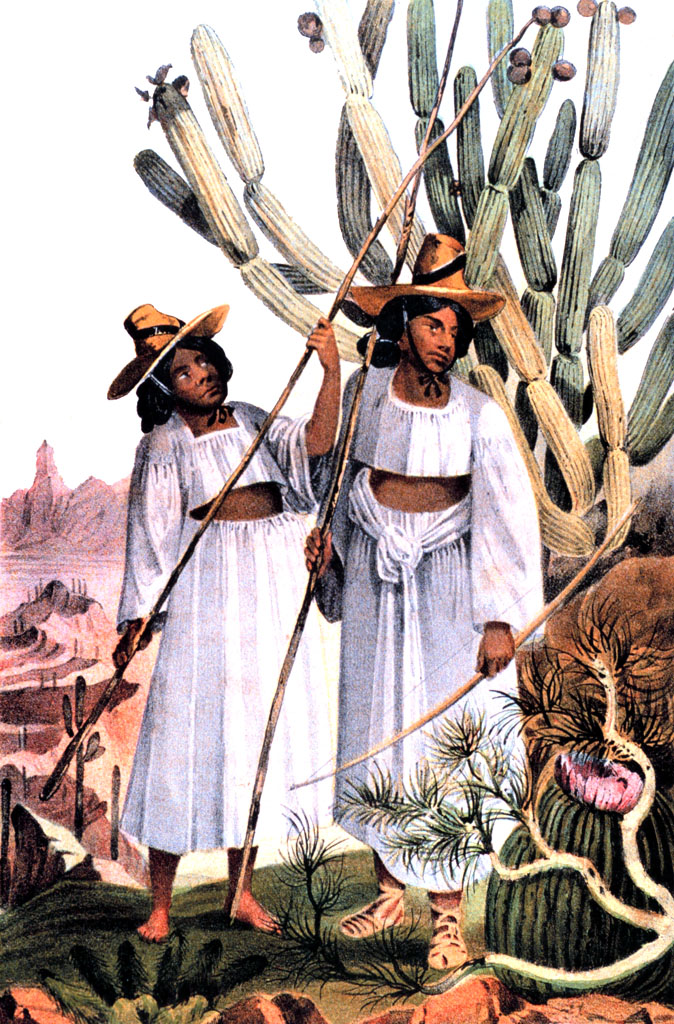 Papagos (Tohono O'odham), hand-colored lithograph